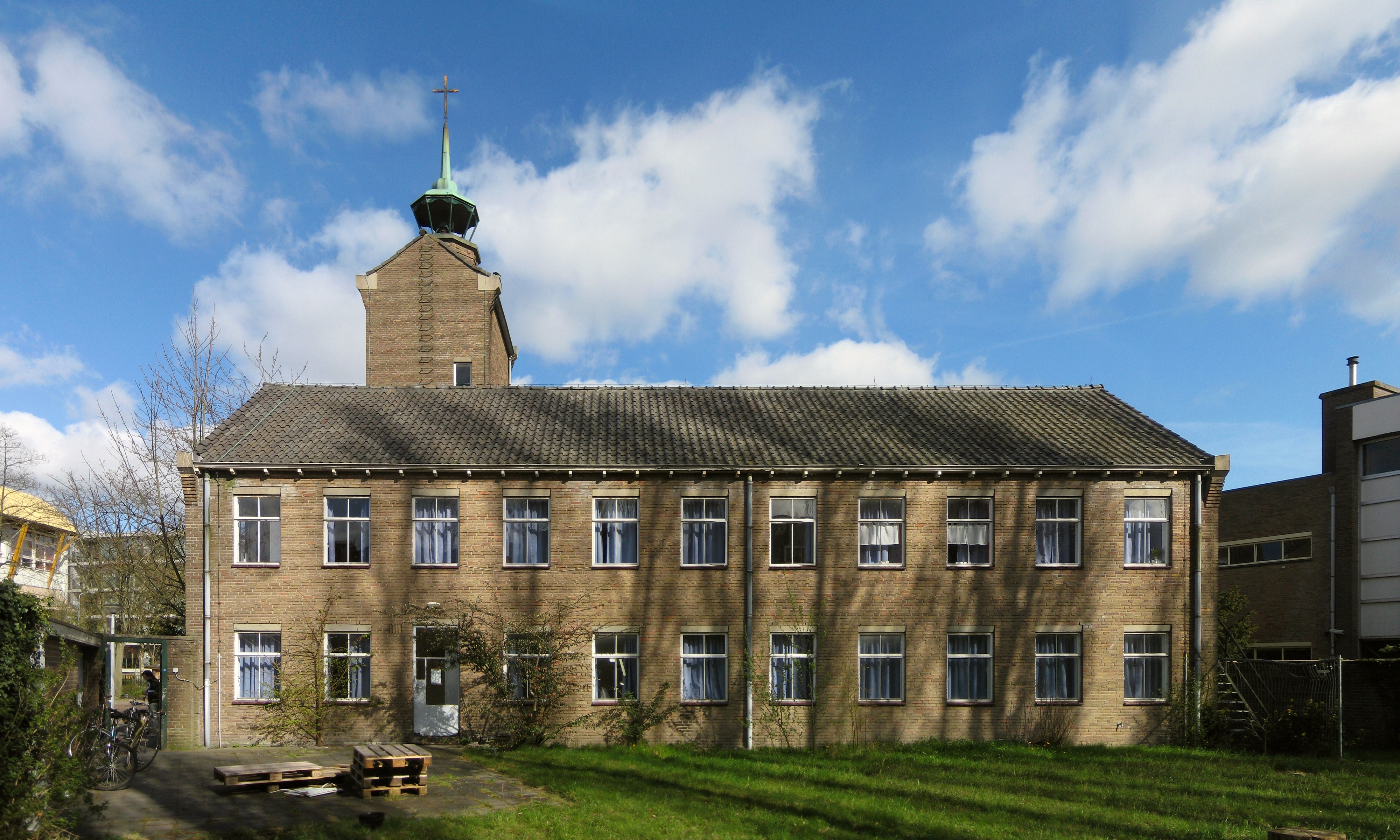 Mariënholm, a former Roman Catholic monastery (1957-1958) in the Dutch city of Groningen.